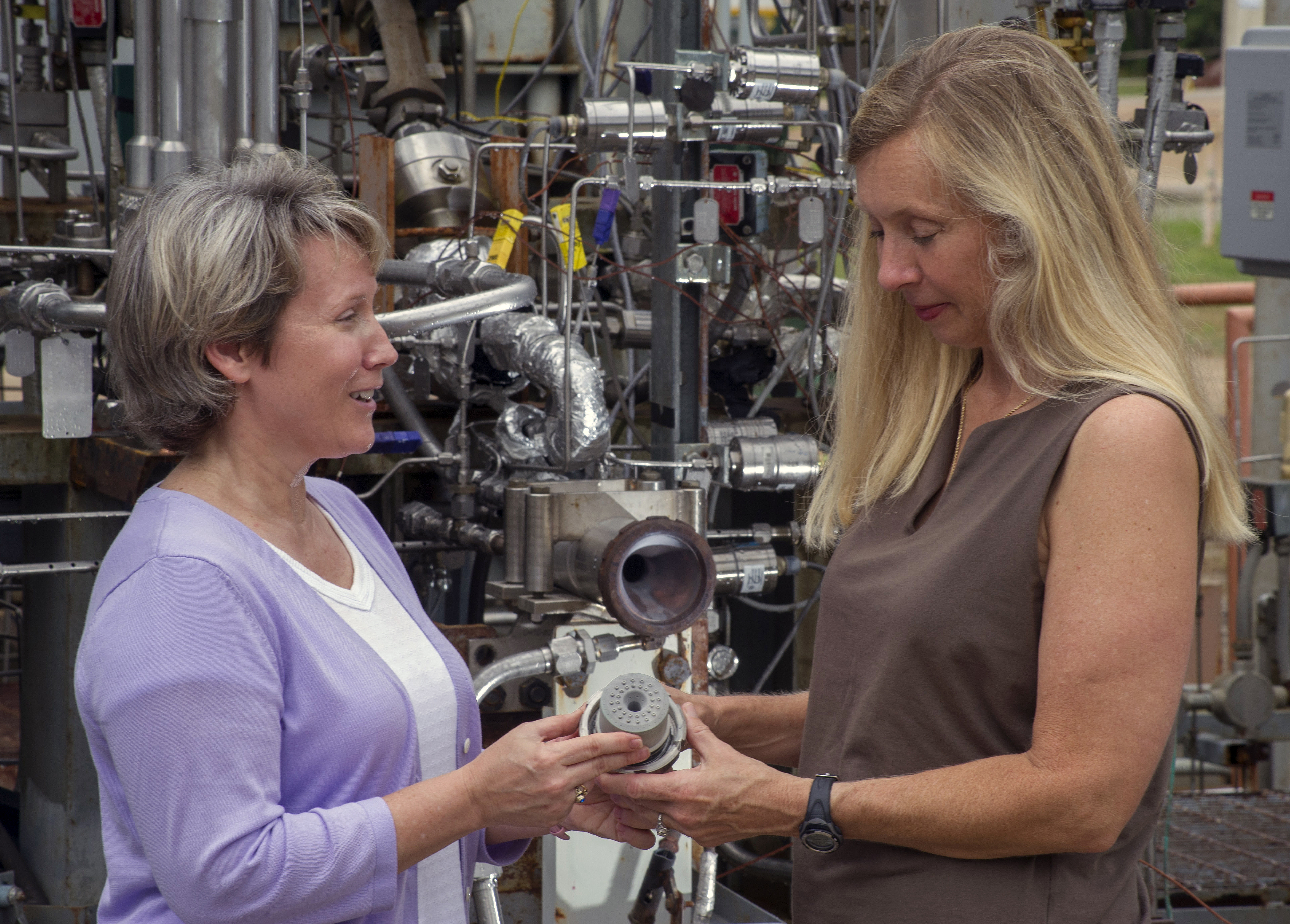 Propulsion engineer Sandra Greene, left, and test engineer Cynthia Sprader recently completed a series of test firings at NASA's Marshall Space Flight Center in Huntsville, Ala.